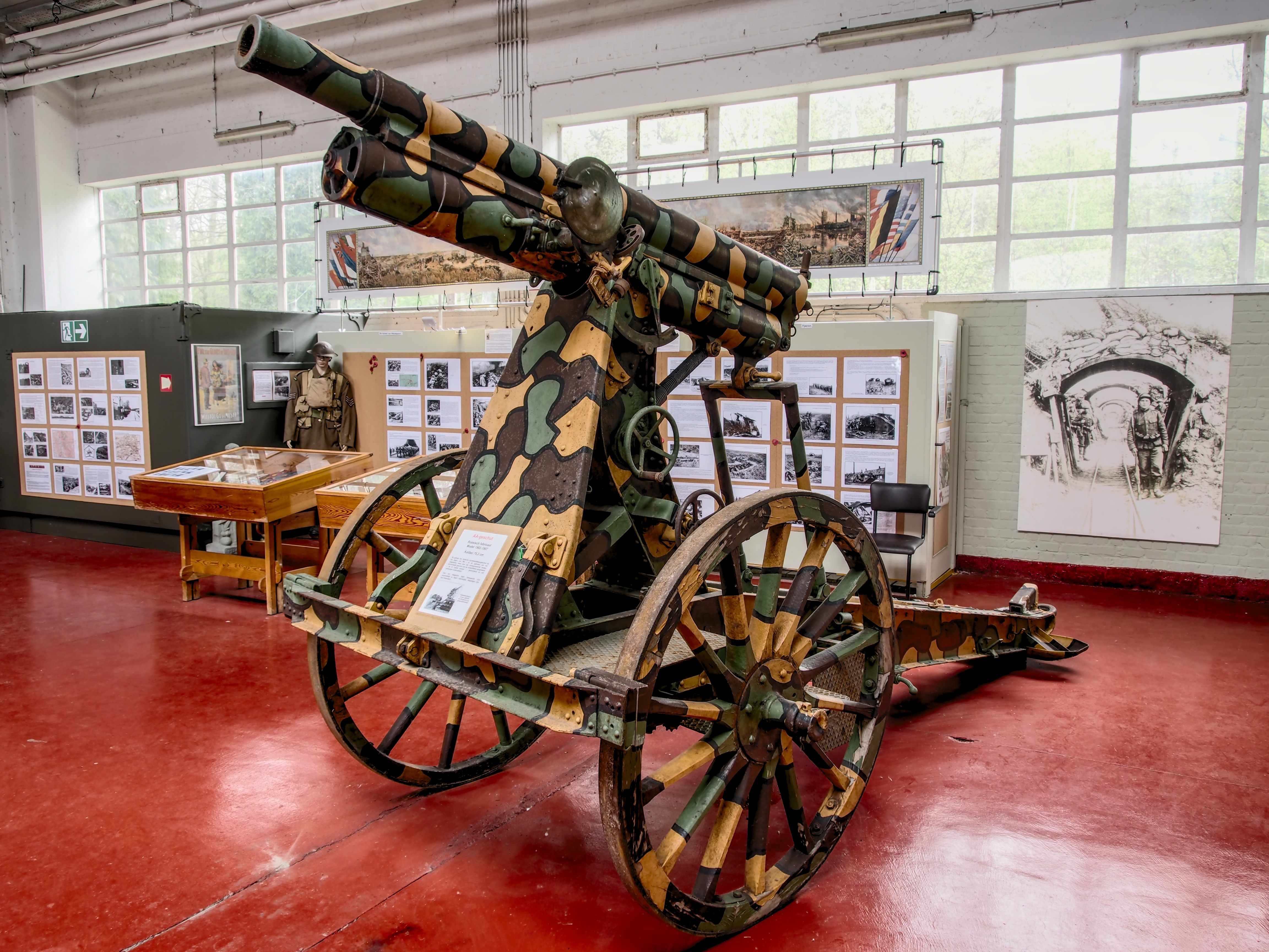 Russian AA 76.2cm Model 1902-1907, Gunfire museum Brasschaat.